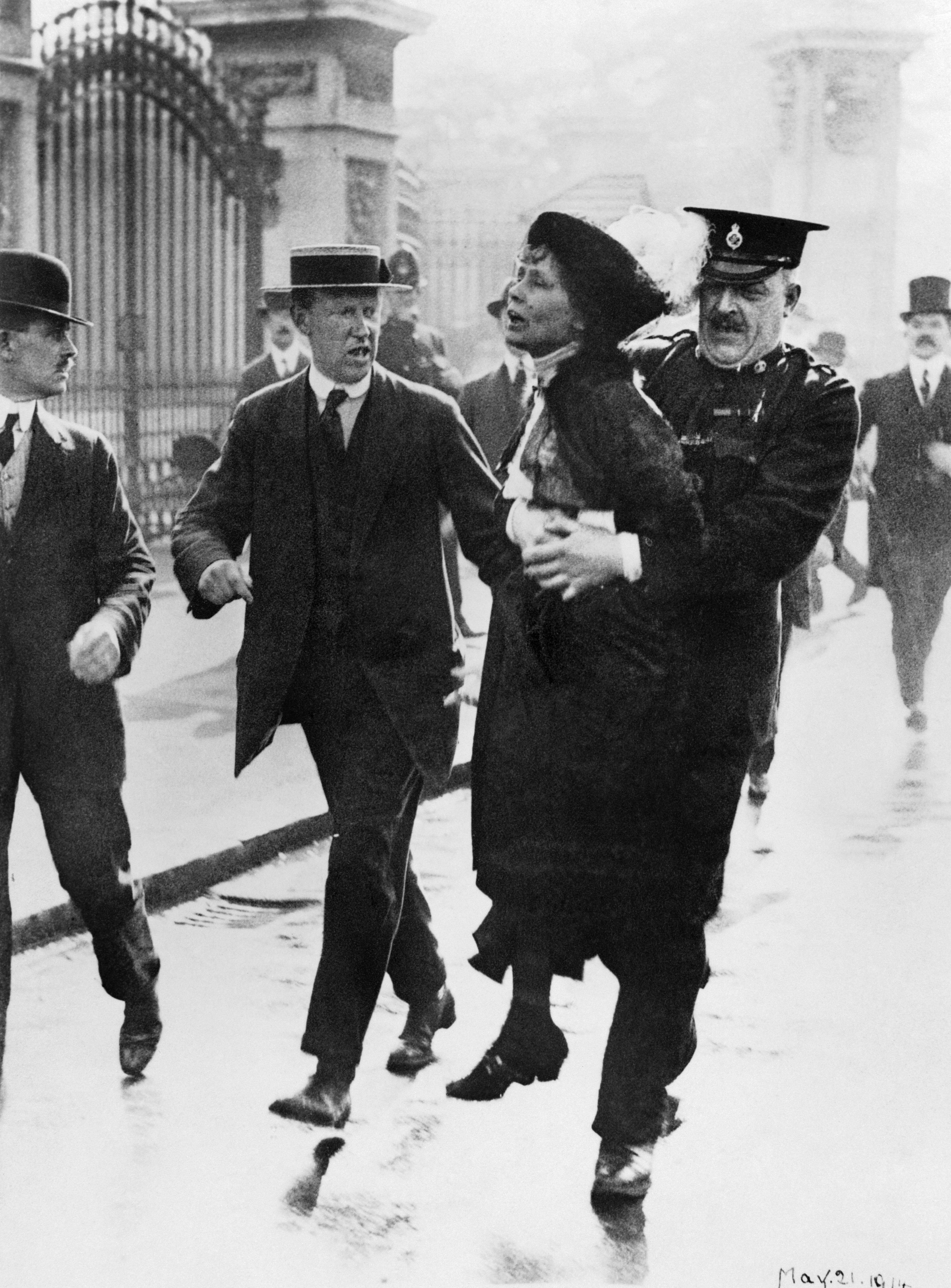 Mrs Emmeline Pankhurst, Leader of the Women's Suffragette movement, is arrested outside Buckingham Palace while trying to present a petition to King George V in May 1914. The leader of the Women's Suffragette movement, Mrs Emmeline Pankhurst is arrested by Superintendant Rolfe outside Buckingham Palace, London while trying to present a petition to HM King George V in May 1914.